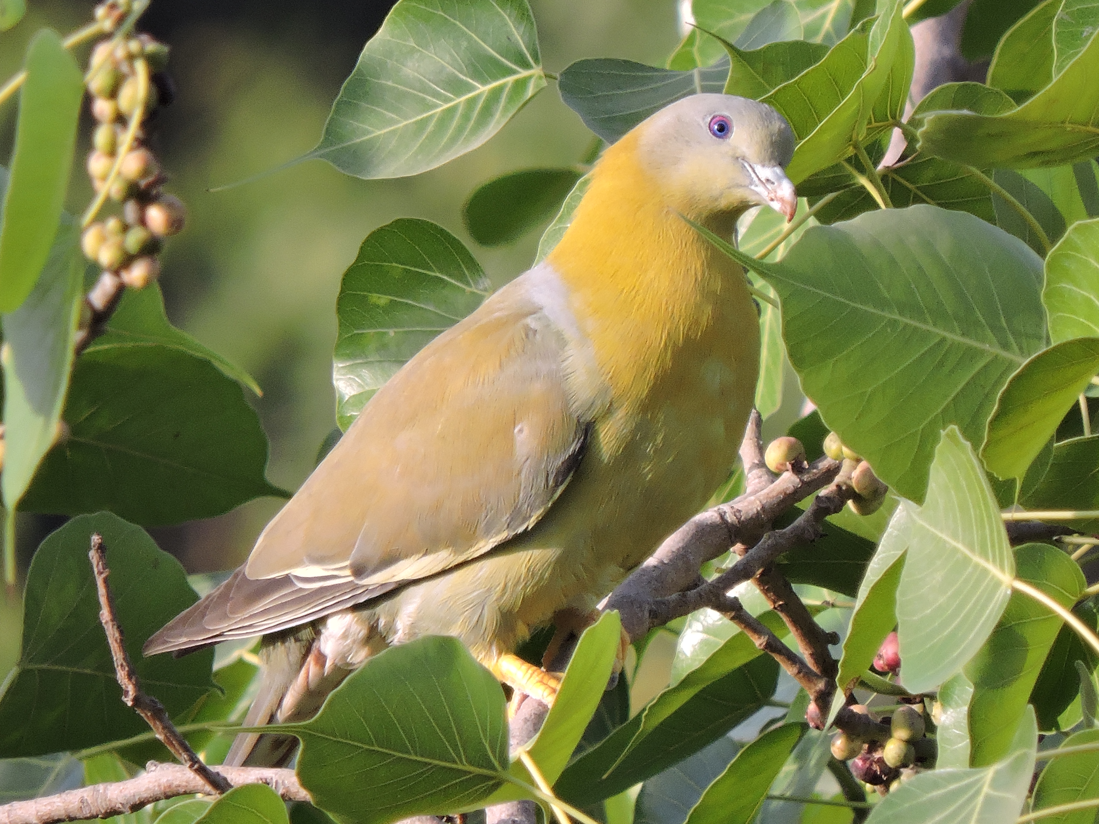 Yellow footed green pegion, at New Delhi , India